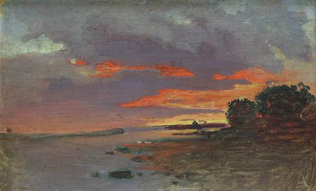 Sunset (painting by Fyodor Vasilyev)